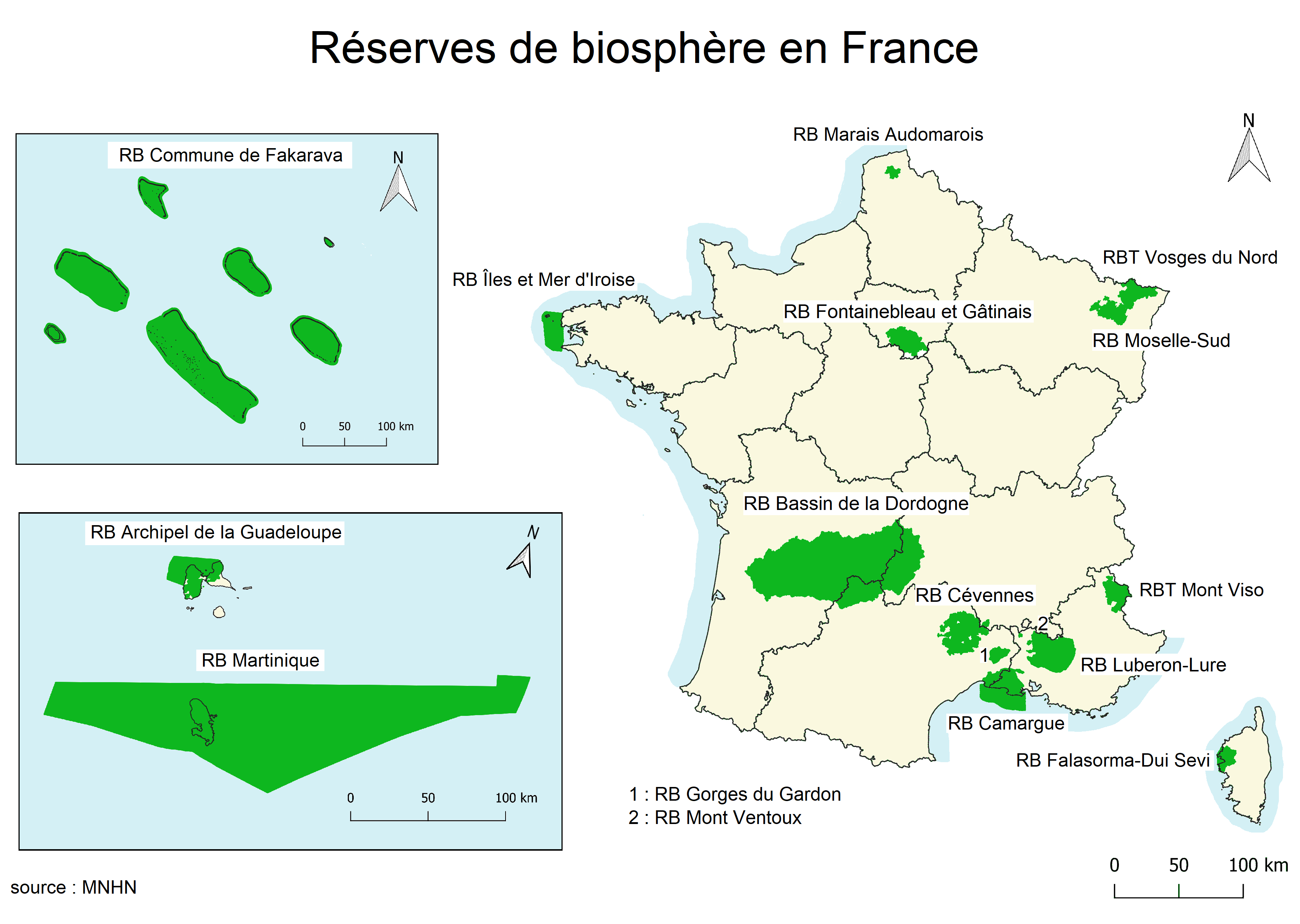 Map of biosphere reserves in France in 2016 without Fakarava